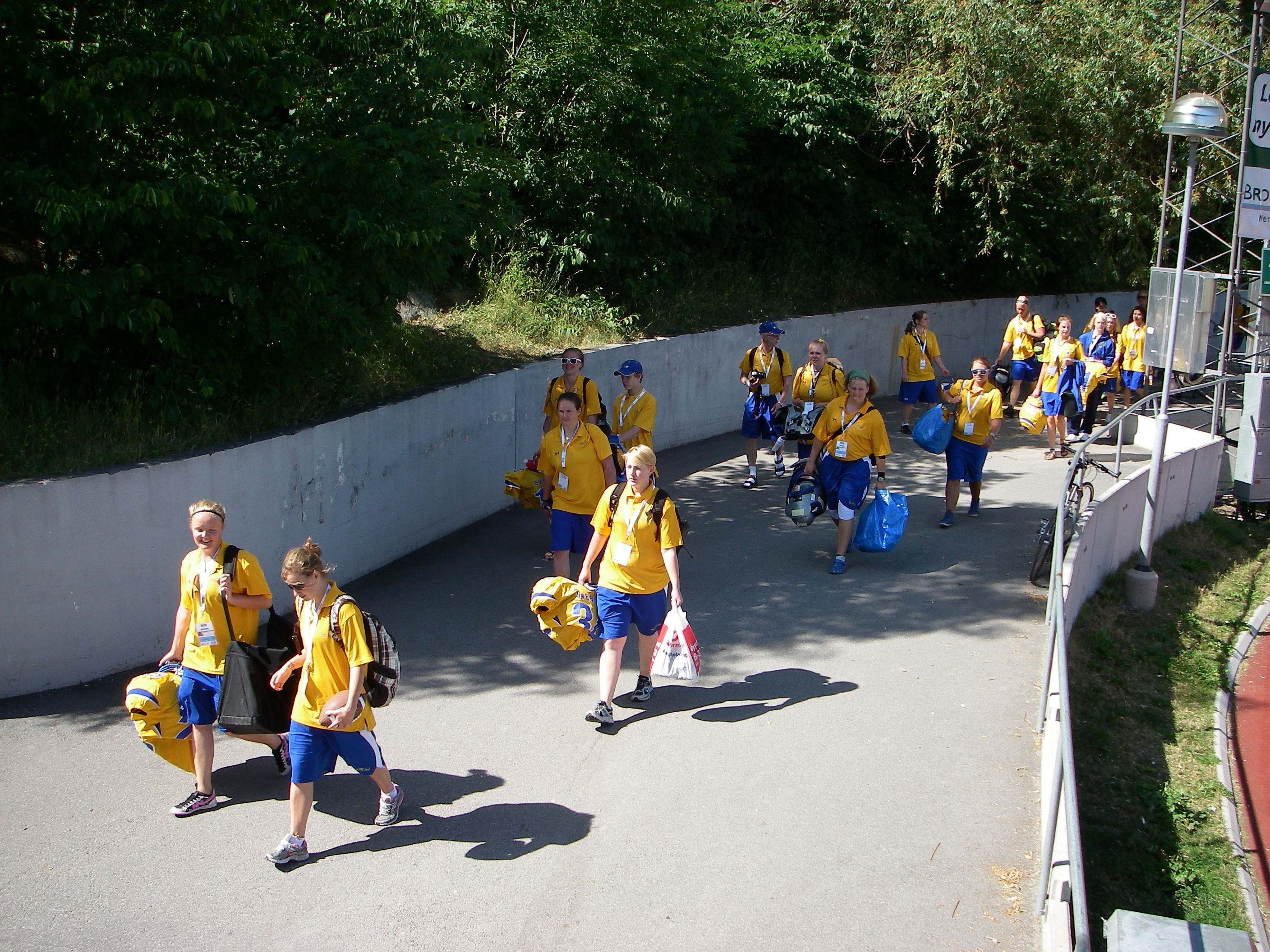 Parts of te Swedish team.